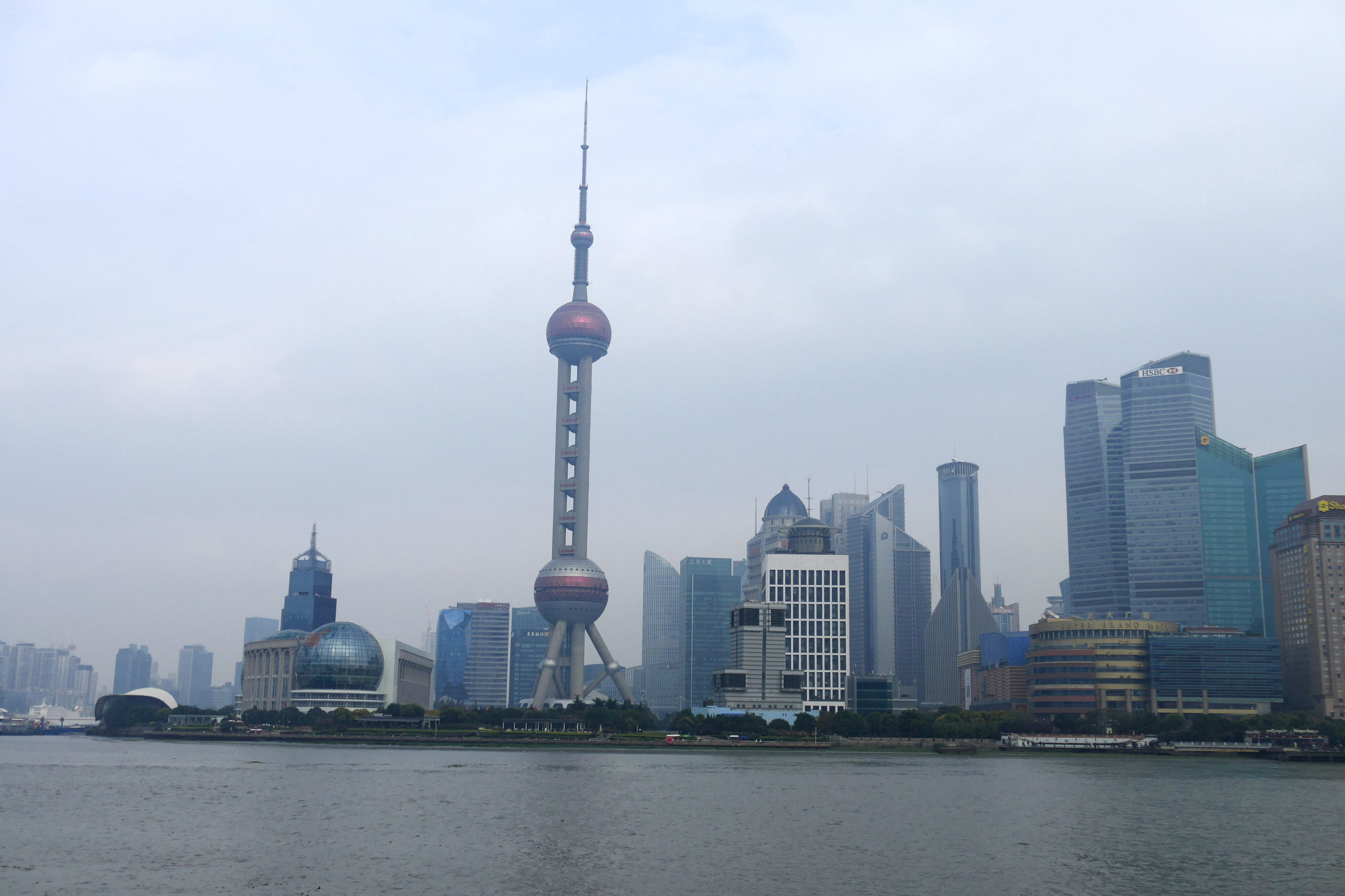 Oriental Pearl Tower - Shanghai, China, 16.22.2014